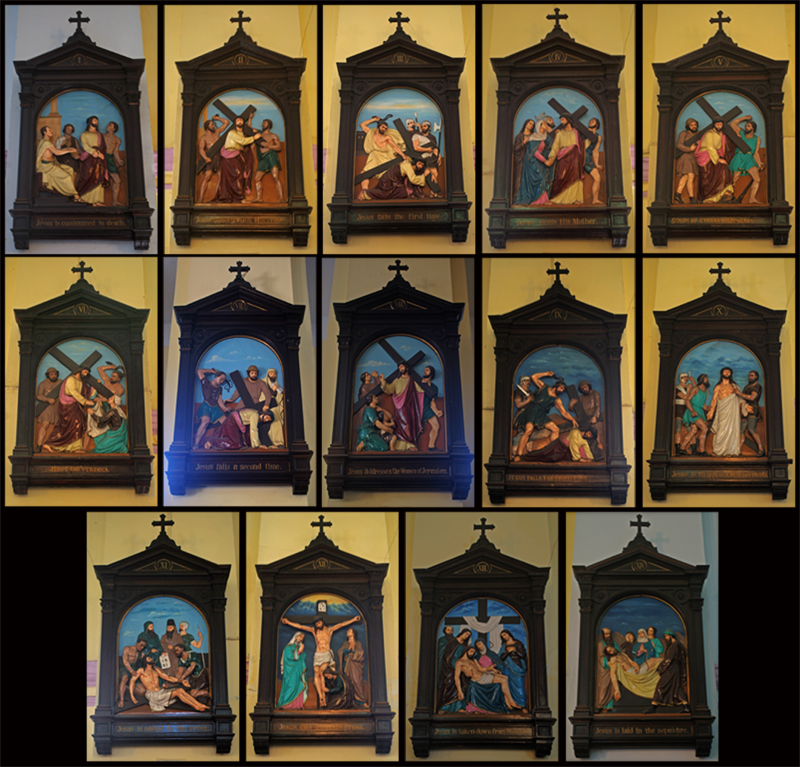 A collage of Christ's 14 cross station, Portuguese Church, Kolkata